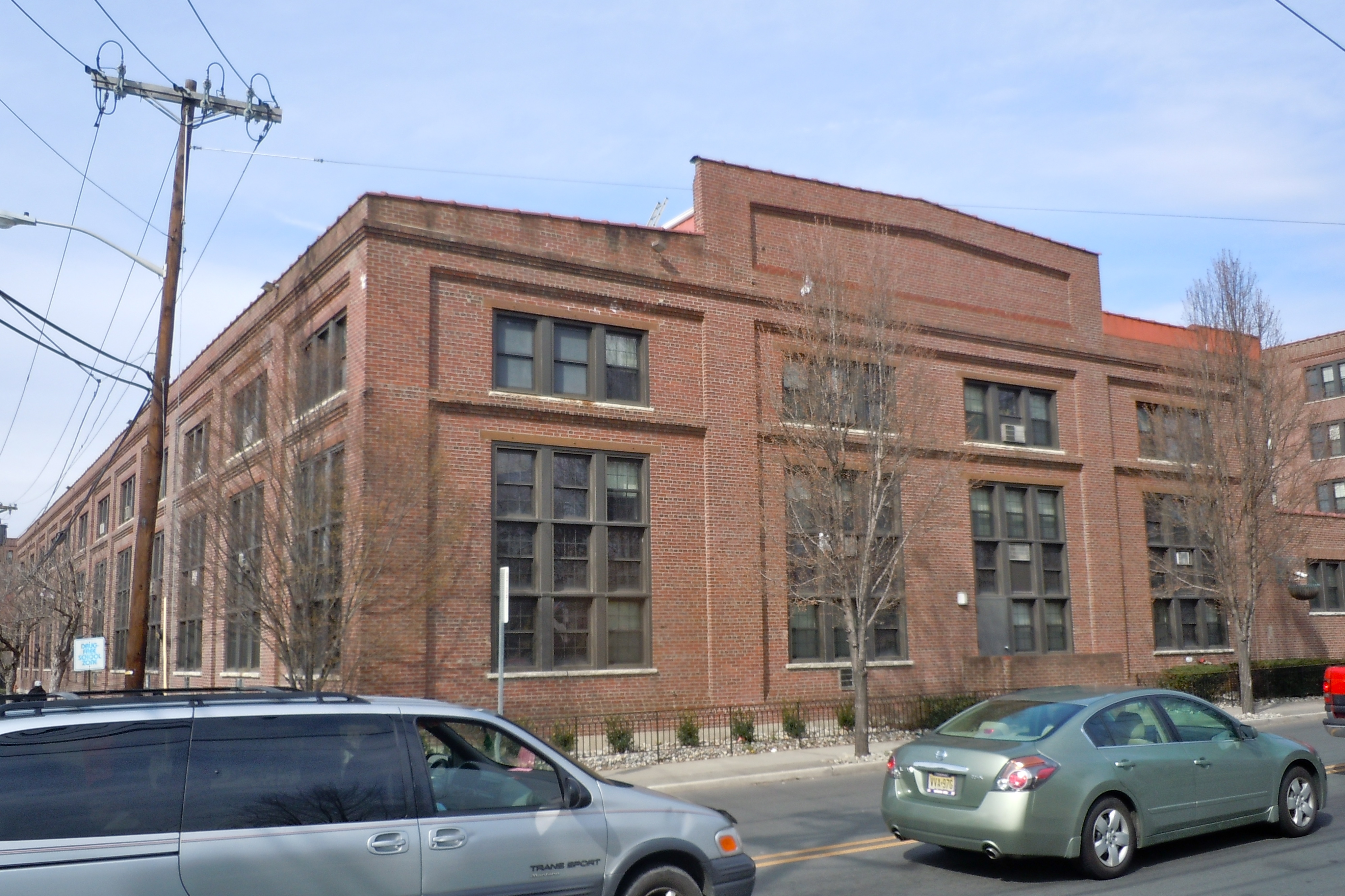 Stokely-Van Camp Industrial Complex on the NRHP since March 11, 1983 at Lalor Street at Stokely Ave. in Trenton, New Jersey. The pork & beans company